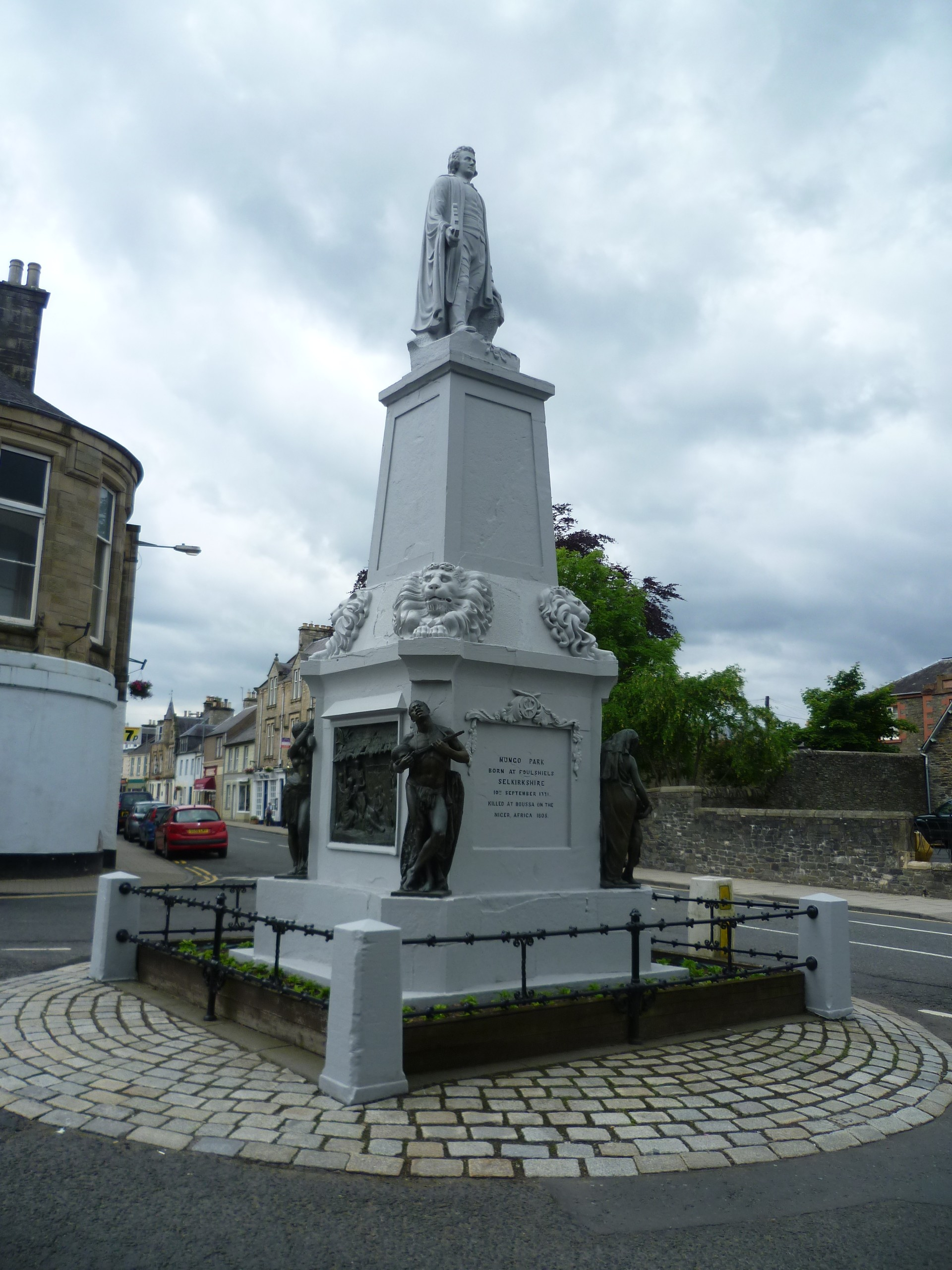 Monument to the explorer of Africa, Mungo Park, who was born at Foulshiels four miles from Selkirk. His statue holds a scroll inscribed with the words "Die on the Niger", a phrase taken from his last letter sent after the death of two of his comrades and before his final journey down the river. "Though all the Europeans who are with me should die, and though I were myself half dead, I would still persevere; and if I could not succeed in the object of my journey, I would at least die on the Niger"